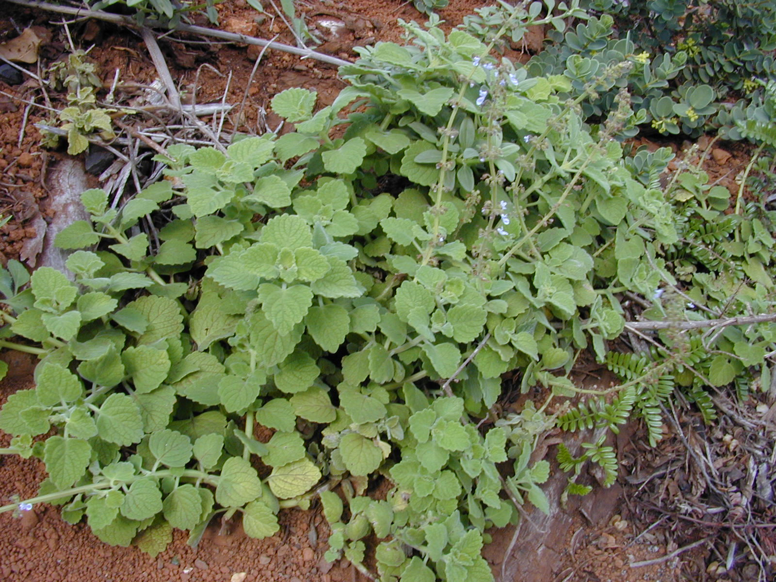 Plectranthus parviflorus (habit). Location: Maui, Makawao